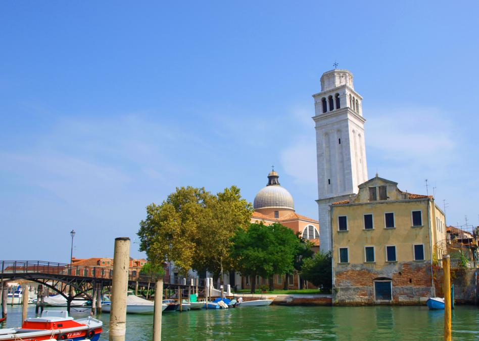 Canale di San Piero in Venice at sunset.